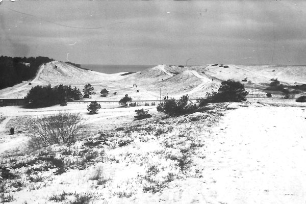 Heathe Hill near Raageleje, Denmark, a winterday approx. 1965. (Photo taken by my parents)